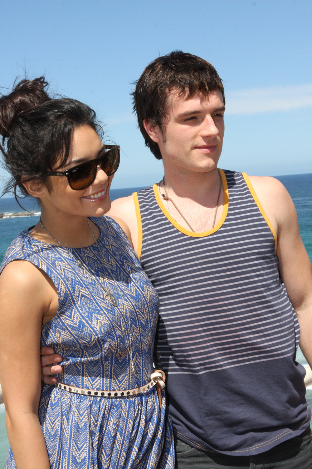 Vanessa Hudgens and Josh Hutcherson at Bondi Beach.